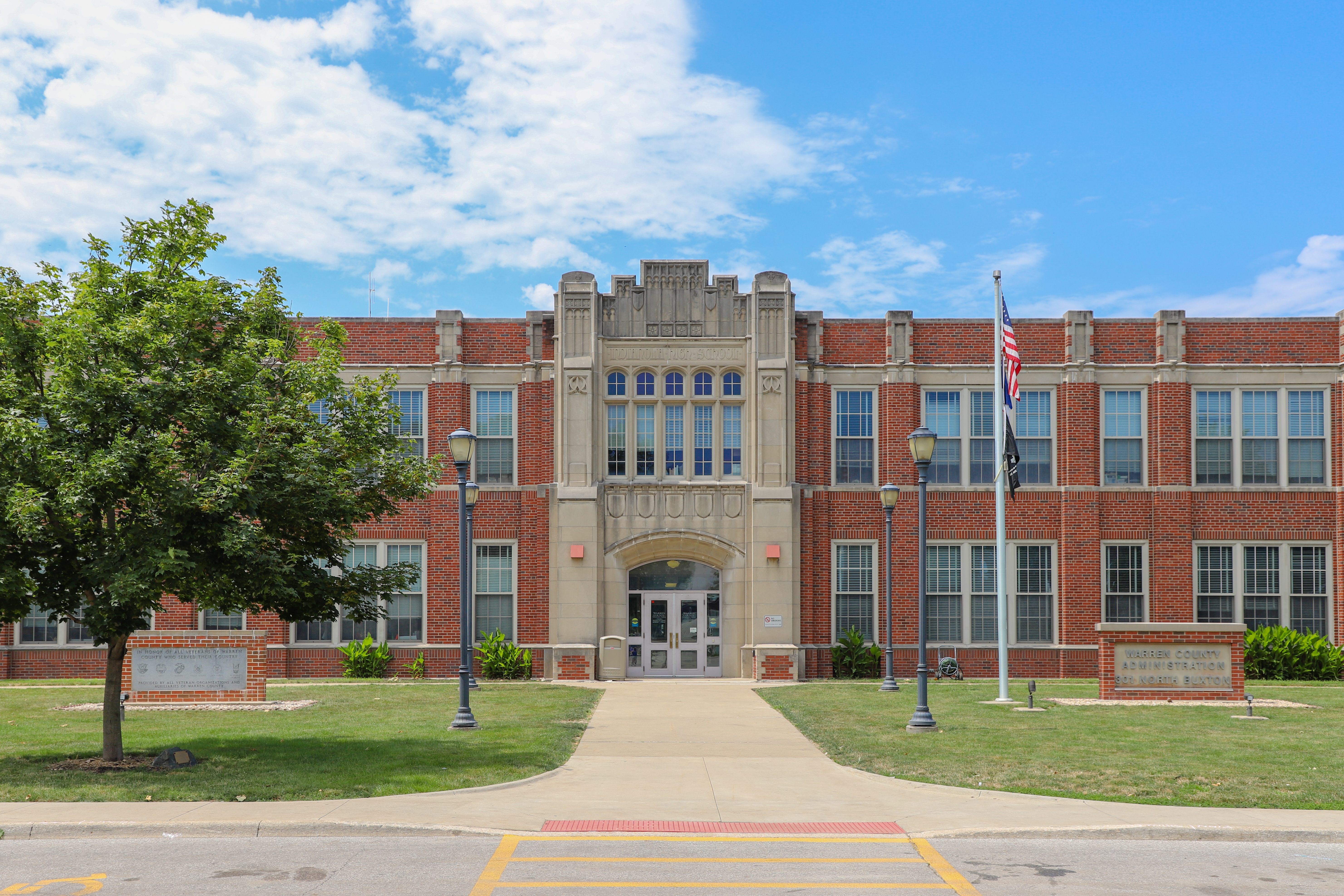 Warren County Administration Building, formerly Indianola High School, Indianola, Iowa. Designed by Grahn & Rathurst of Minneapolis in the Late Gothic Revival style and constructed in 1925; renovated 1997-1999 to become the Warren County Administration Building. NRHP designation: 2002.